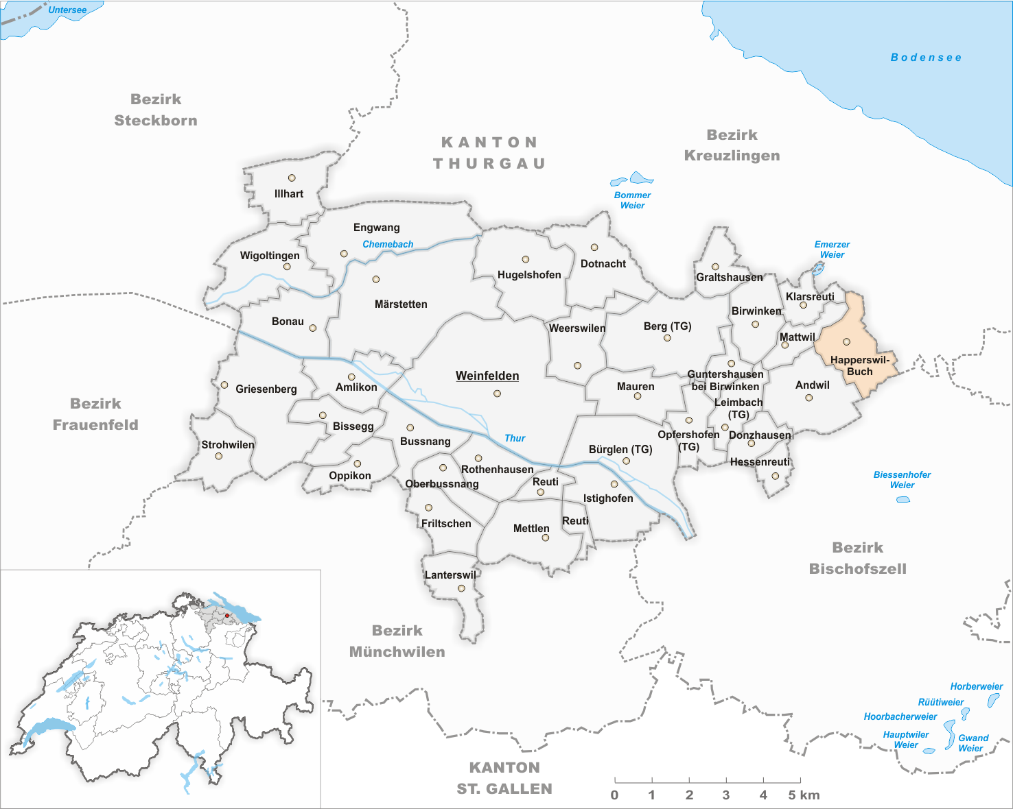 Municipality Happerswil-Buch